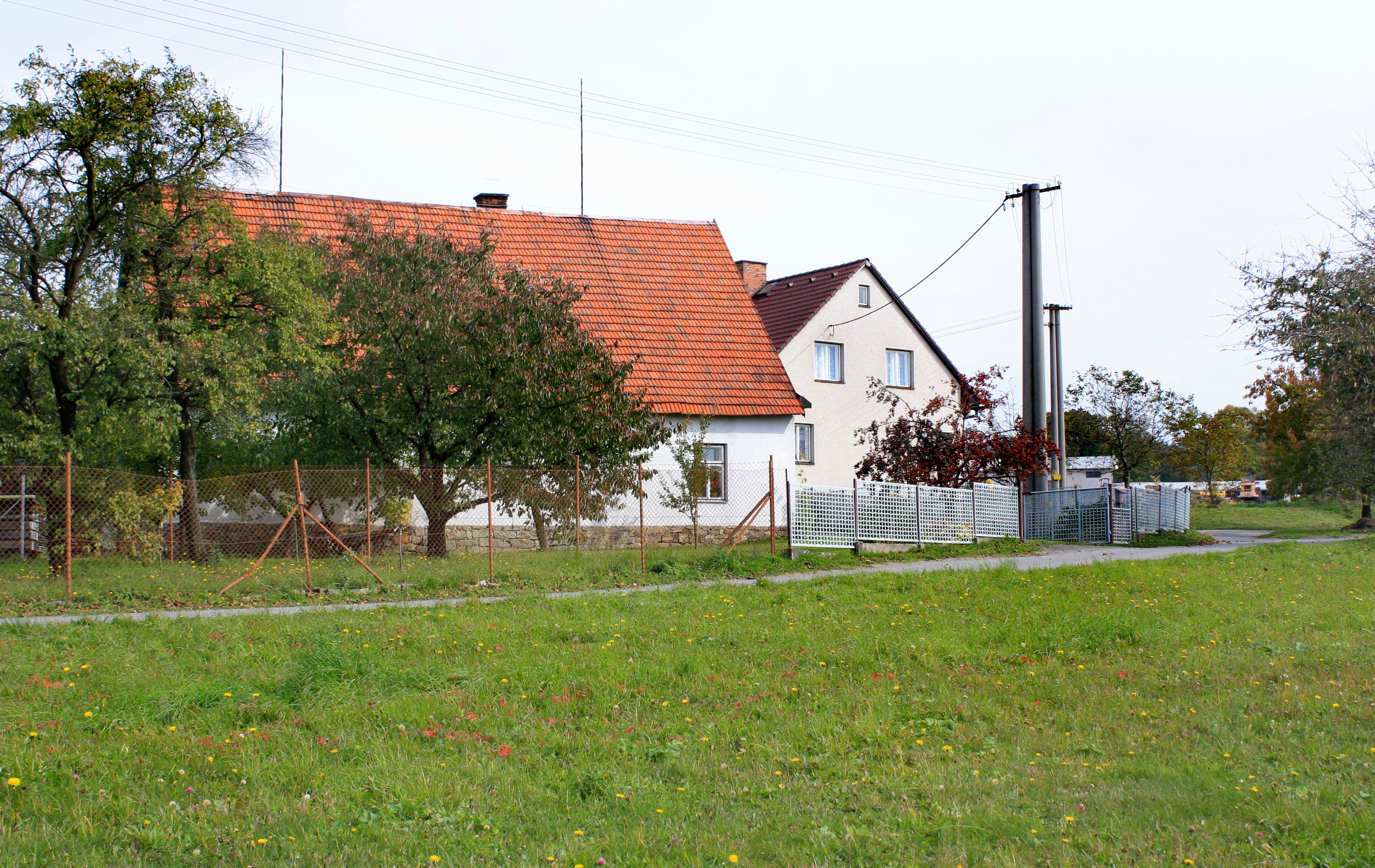 Upper part of Polom village, Czech Republic